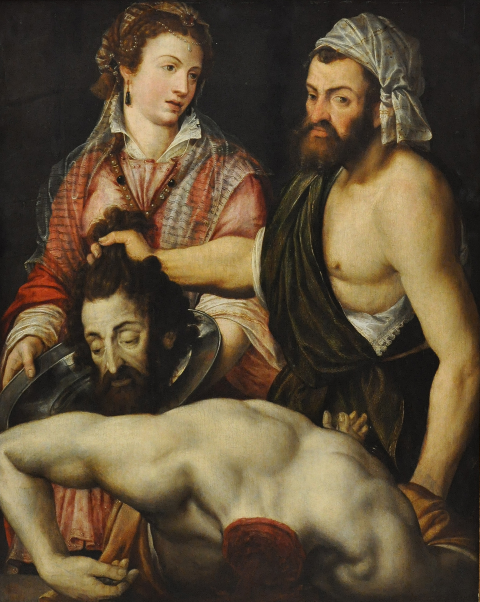 Salome with the head of John the Baptist